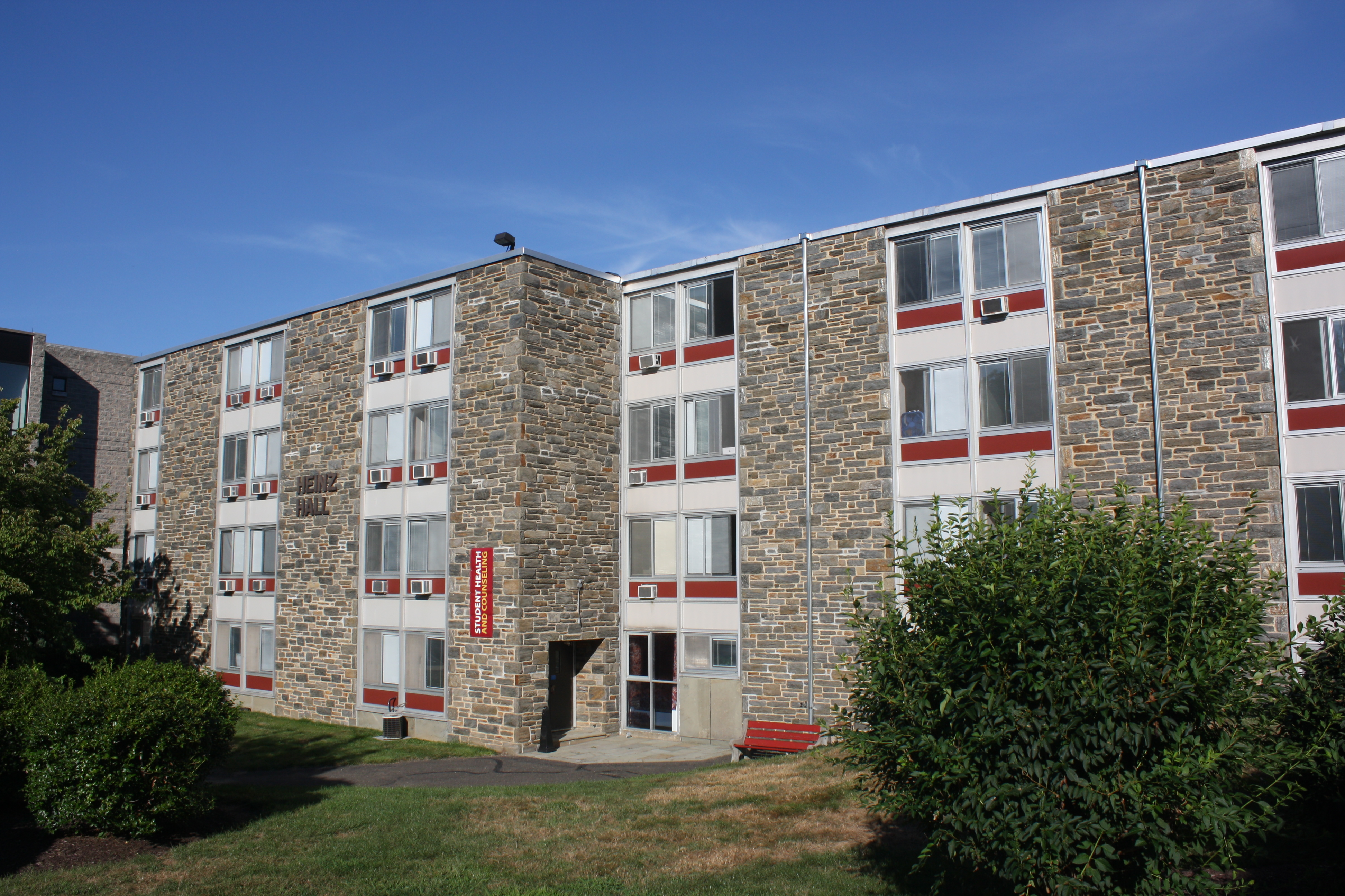 Heinz Hall, Arcadia University. Western side.